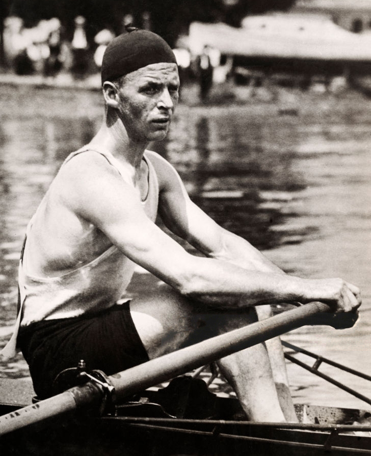 Garrett Gilmore of the USA, winner of the world's sculling singles championship, in Duluth Minnesota on 18th September 1923. Gilmore went on to win the silver medal in the event at the Paris Summer Olympic Games in 1924 and a gold medal in the men's double sculls at the 1932 Games.